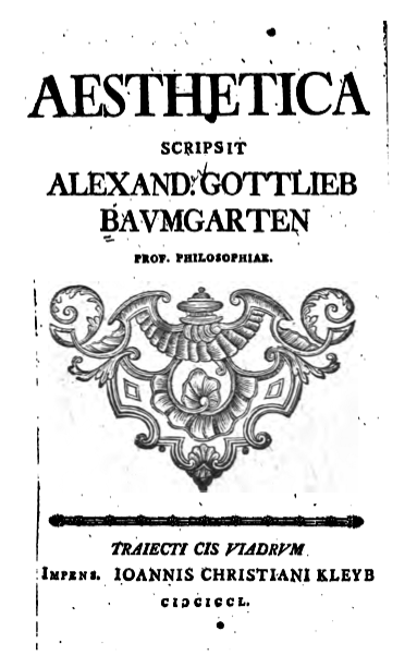 First page of Aesthetica (1750) by Alexander Gottlieb Baumgarten (1714–1762). In the public domain (never any copyright).